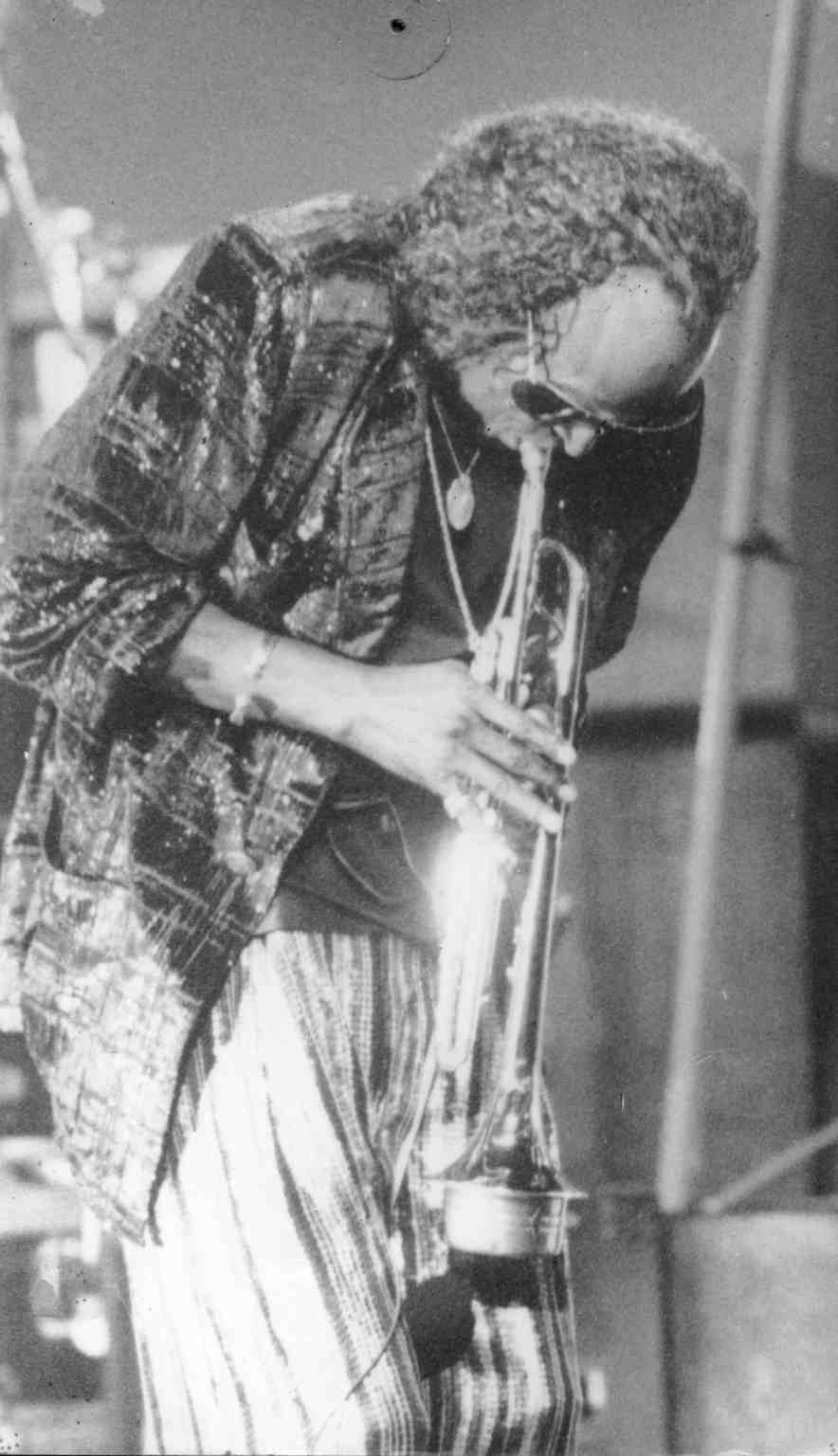 Miles Davis, photo taken between 1989 and 1991 35 mm SLR Pentax - Tri X rated at 1600 ASA - 120mm lens set at f:4.5, speed 1/25 sec